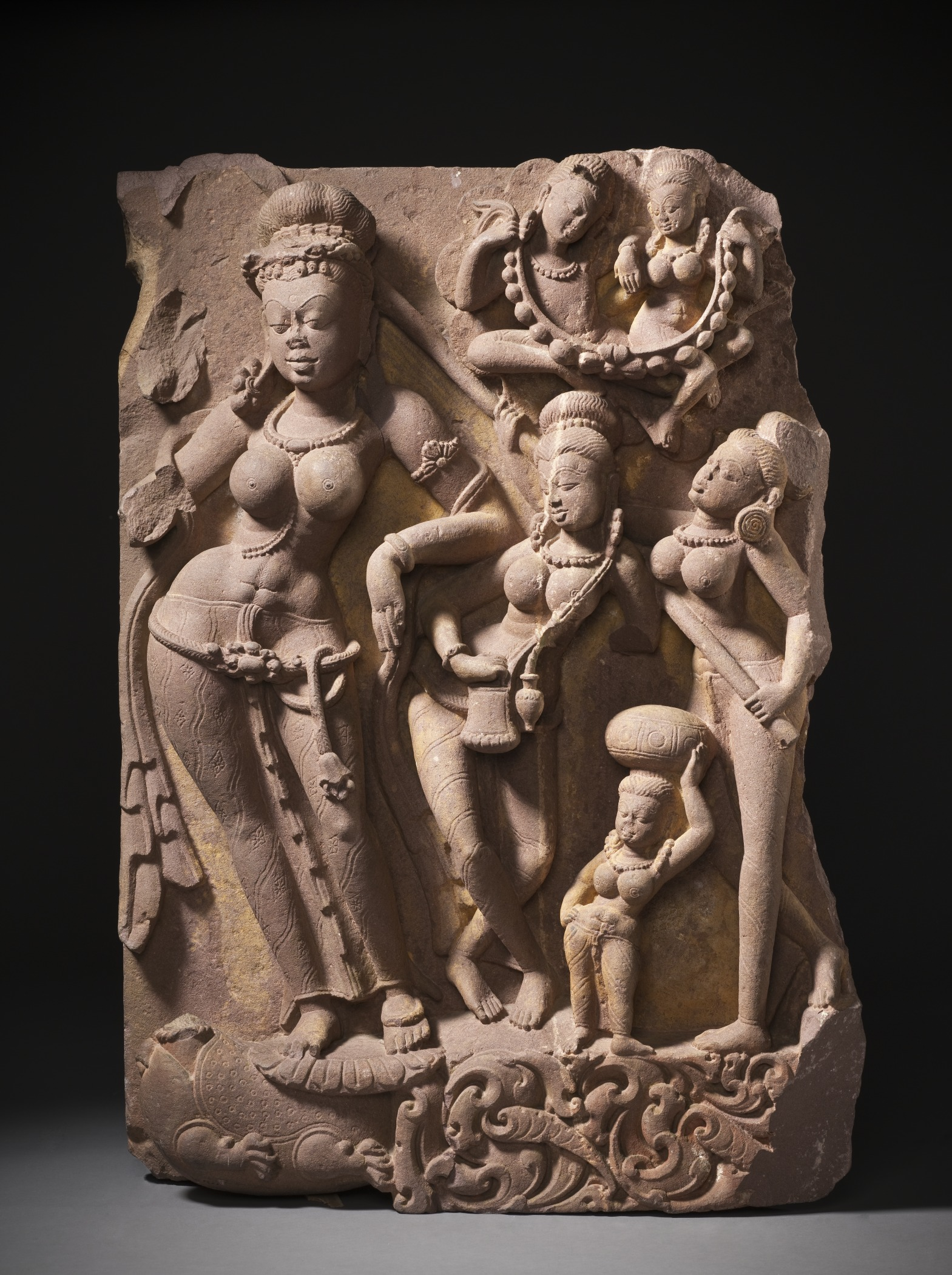 India, Rajasthan, circa 800 Sculpture Red sandstone Overall: 29 1/2 x 26 1/2 x 8 in. (74.93 x 67.31 x 20.32 cm); (a) 26 1/4 x 18 1/2 x 8 in. (66.67 x 46.99 x 20.32 cm); (b) 29 1/2 x 8 1/2 x 5 1/2 in. (74.93 x 21.59 x 13.97 cm) From the Nasli and Alice Heeramaneck Collection, Museum Associates Purchase (M.79.9.10.2a-b) South and Southeast Asian Art